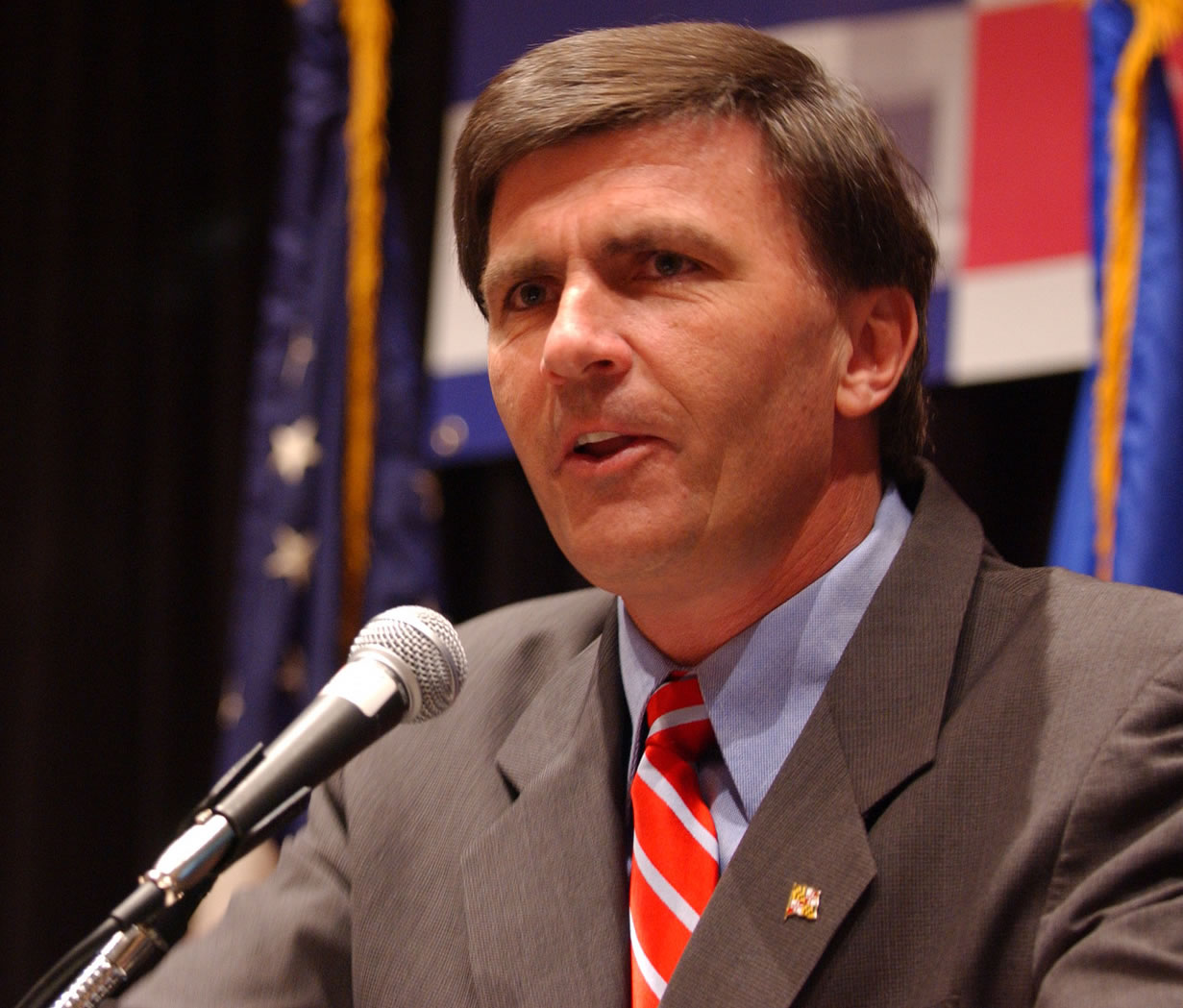 Maryland governor Robert Ehrlich at 2nd National Steps to a HealthierUS Summit.